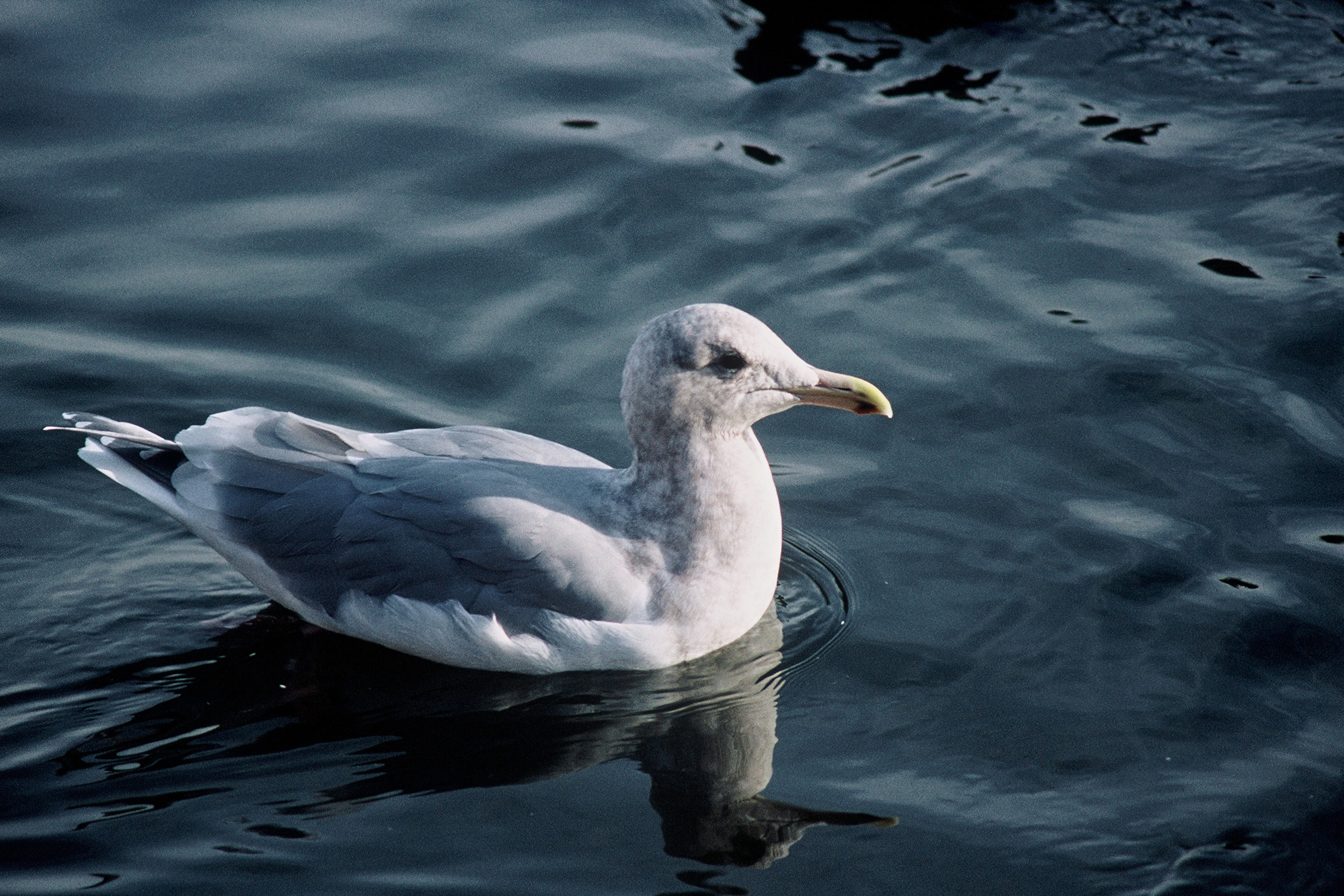 Glaucous-winged Gull (Larus glaucescens)